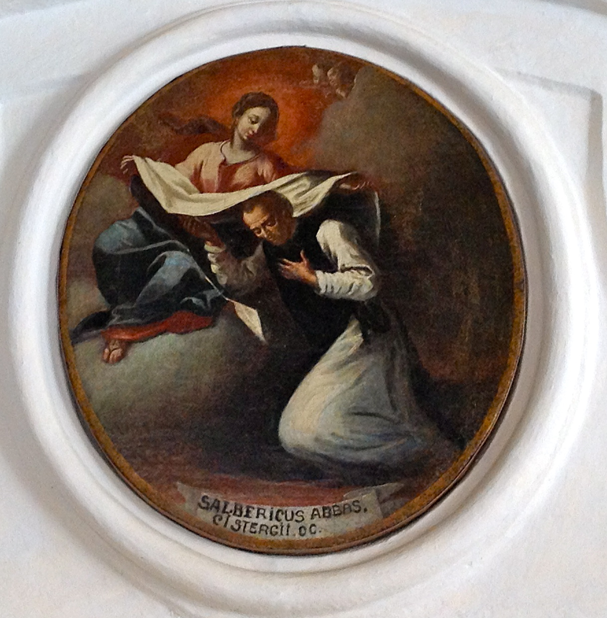 The Virgin Mary hands St. Alberich of Cîteaux the Cistercian habit. This event, known as the Descensio BMV in Cistercium, is found in the Cistercian liturgical calendar on Aug. 5th. This fresco is from Rein Abbey, Austria